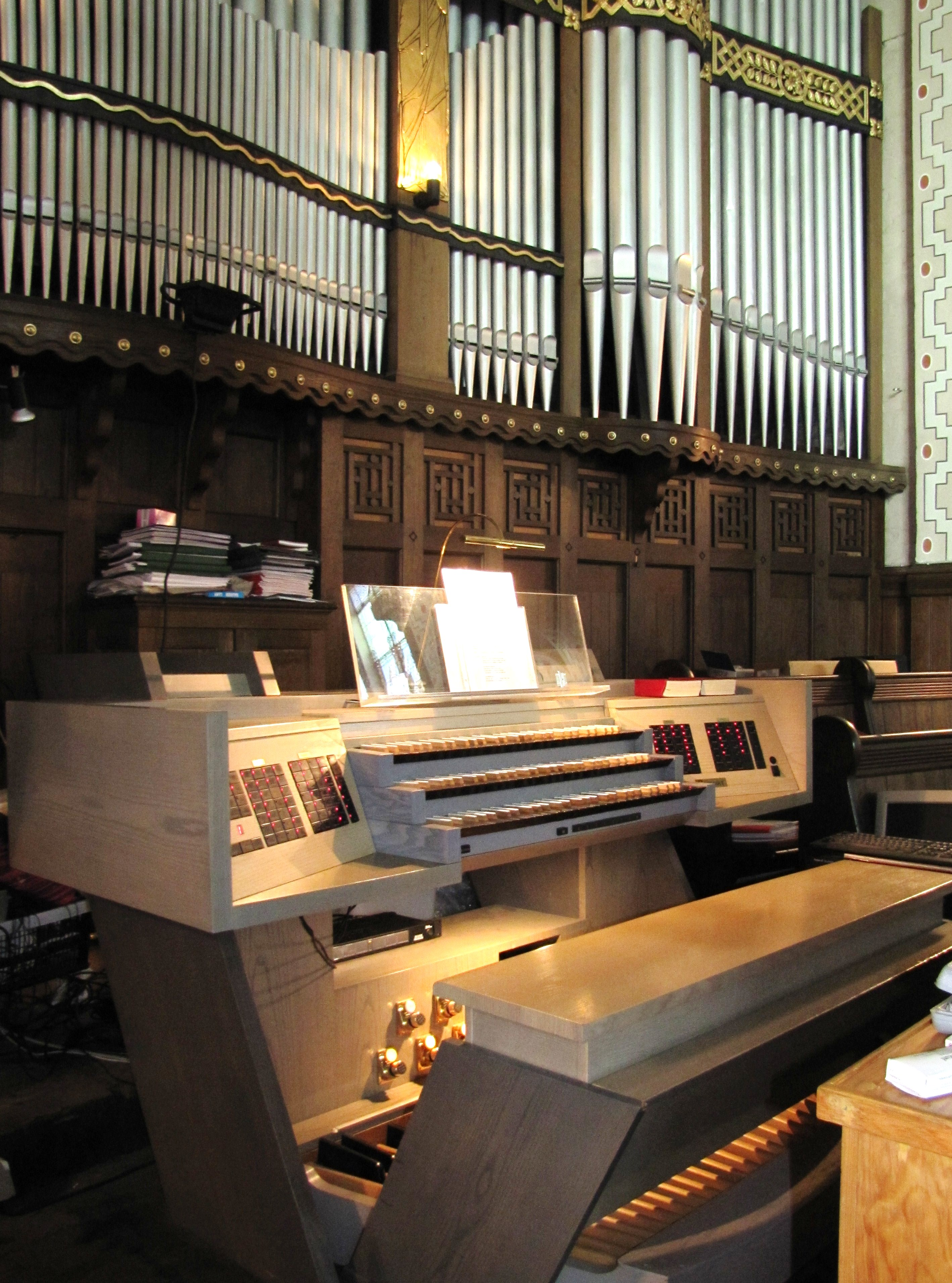 Console of the Immanuel-Church (lutheran) in Dortmund-Marten, special and unique design for this church from 1995, design by Oliver Fiedler, Dortmund